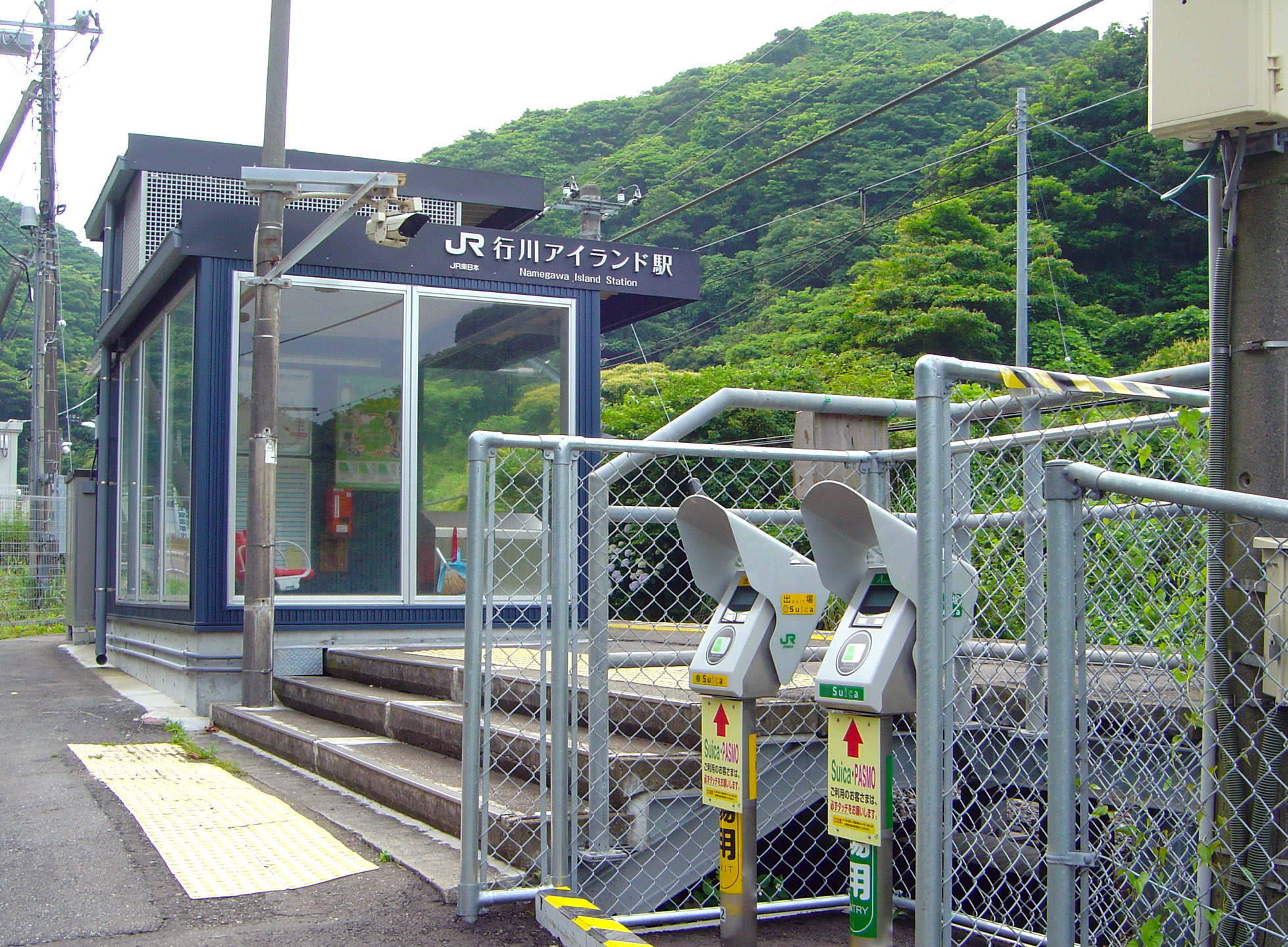 JR Sotobō-Line Namegawa-Island Station